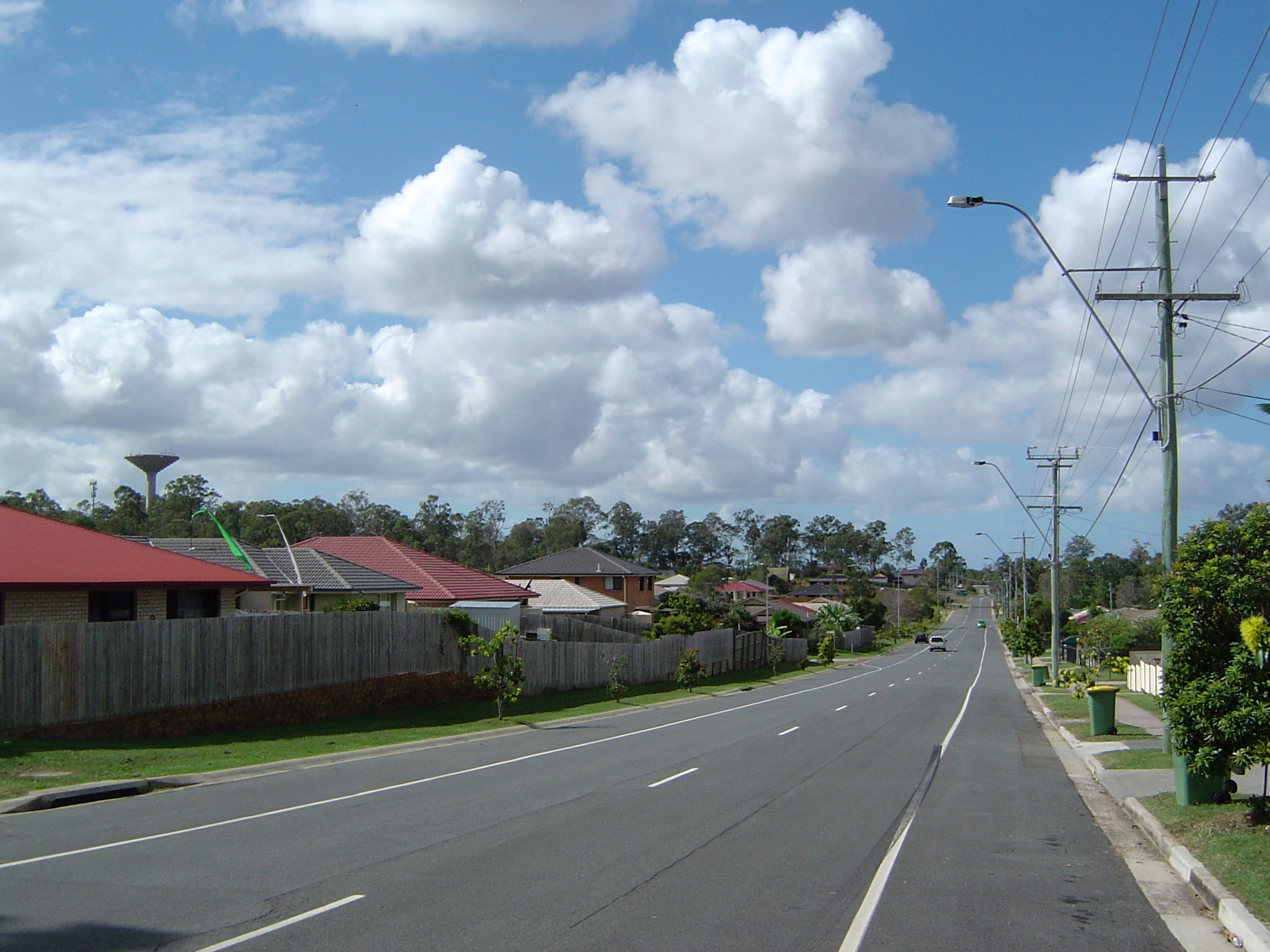 Photo of Coronation Road at Hillcrest, Logan City, Queensland, Australia.